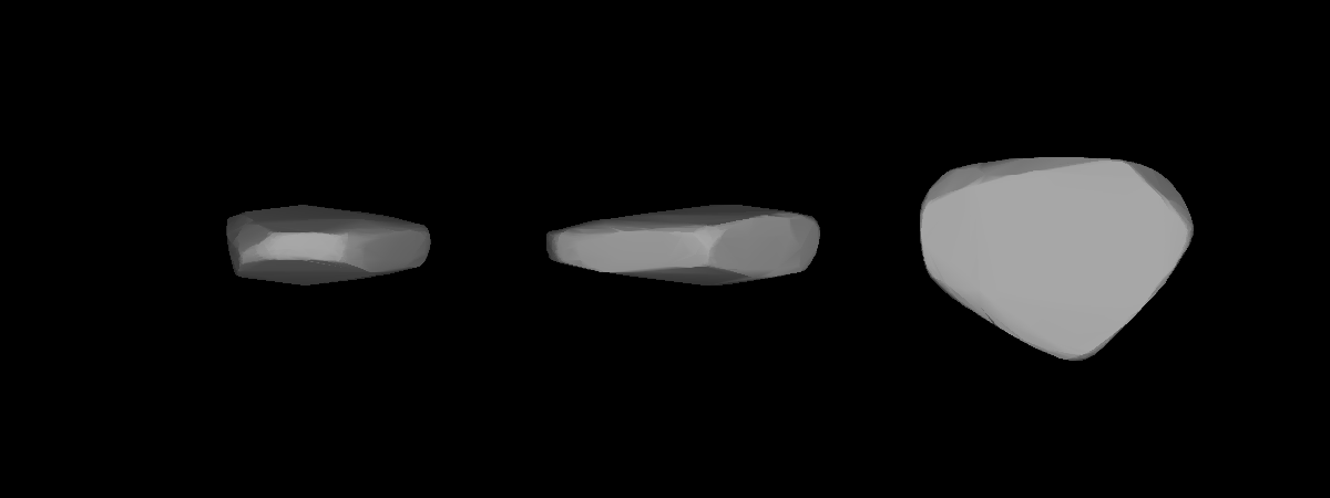 A three-dimensional model of 1633 Chimay that was computed using light curve inversion techniques.